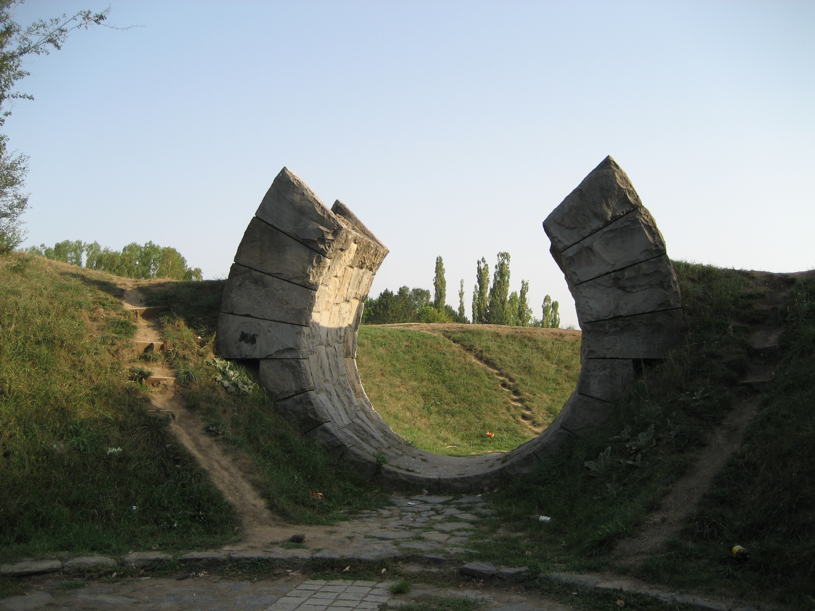 Kapija Sunca (sun door), necropolis Slobodište near Kruševac, Serbia